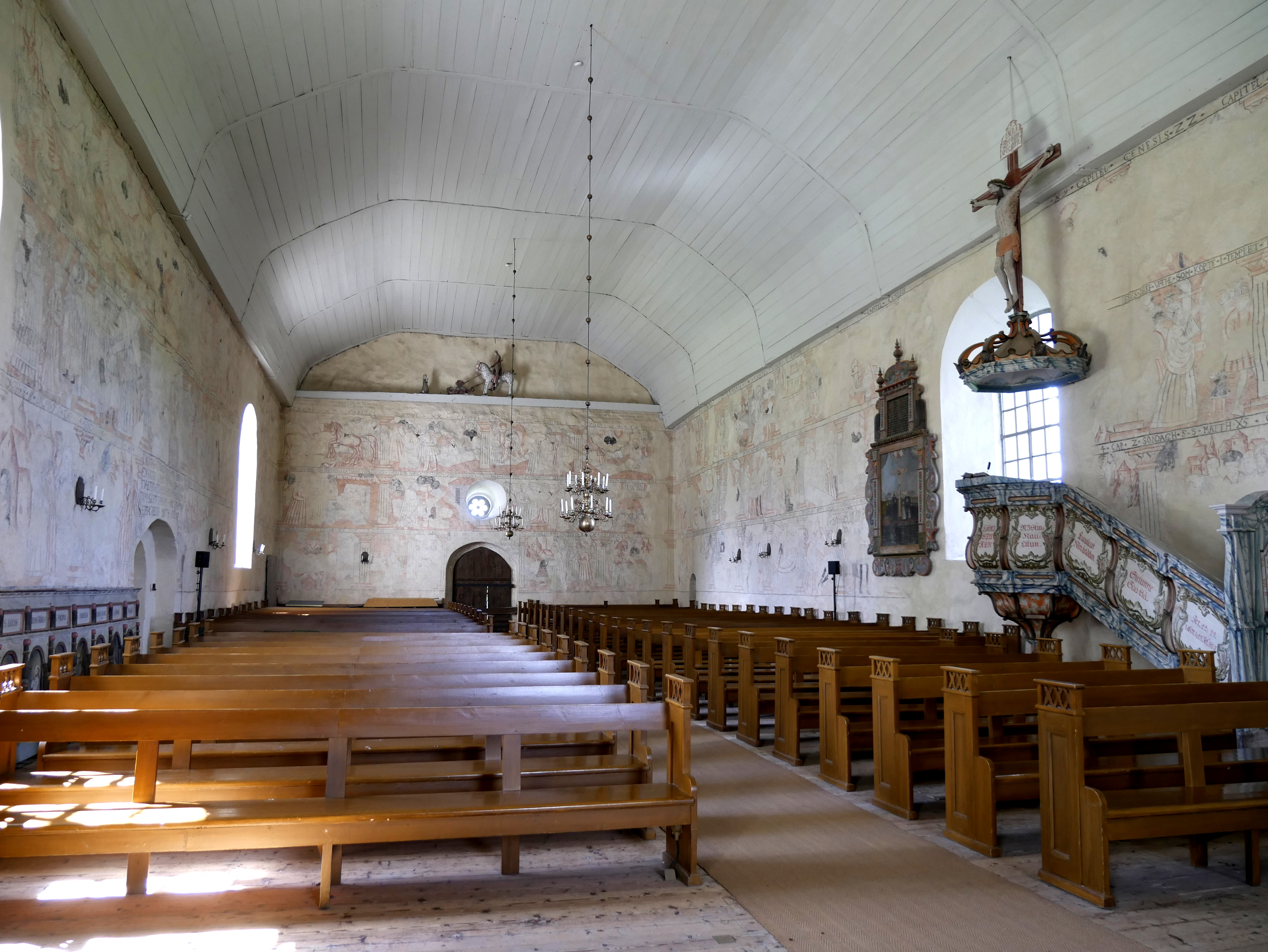 Interior of Isokyrö Old Church.